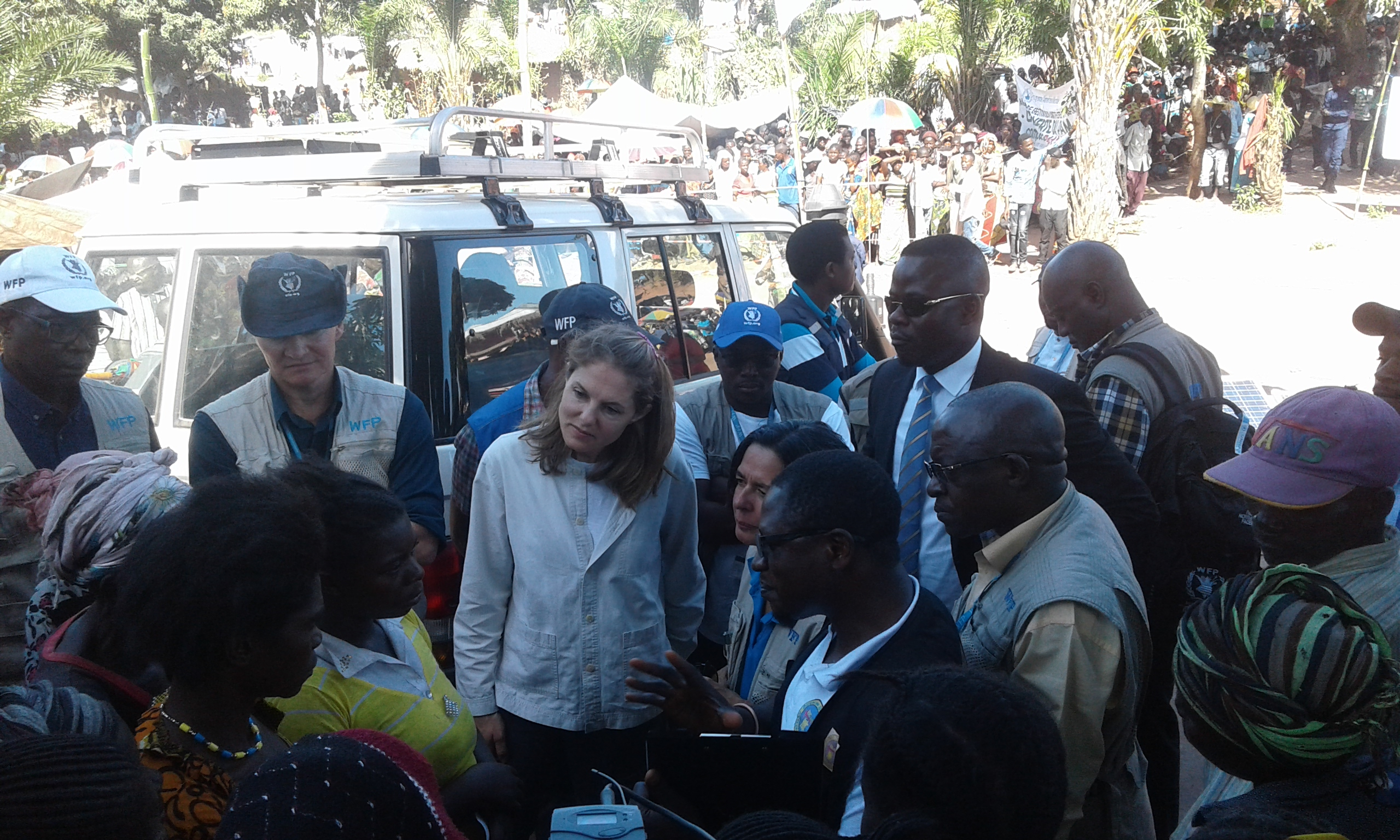 Kalemie, Province of Tanganyika, DR Congo: Her Royal Highness, Princess of the Kingdom of Jordan, Sarah Zeid, Goodwill Ambassador of the World Food Program (WFP), in DRC, accompanied by the Regional Director of the World Food Program (PAM), Lola Castro, visited the displaced sites of Kalunga and Katanika and the Bwanakucha Nutritional Center Photo MONUSCO / Francois-Xavier Mybe